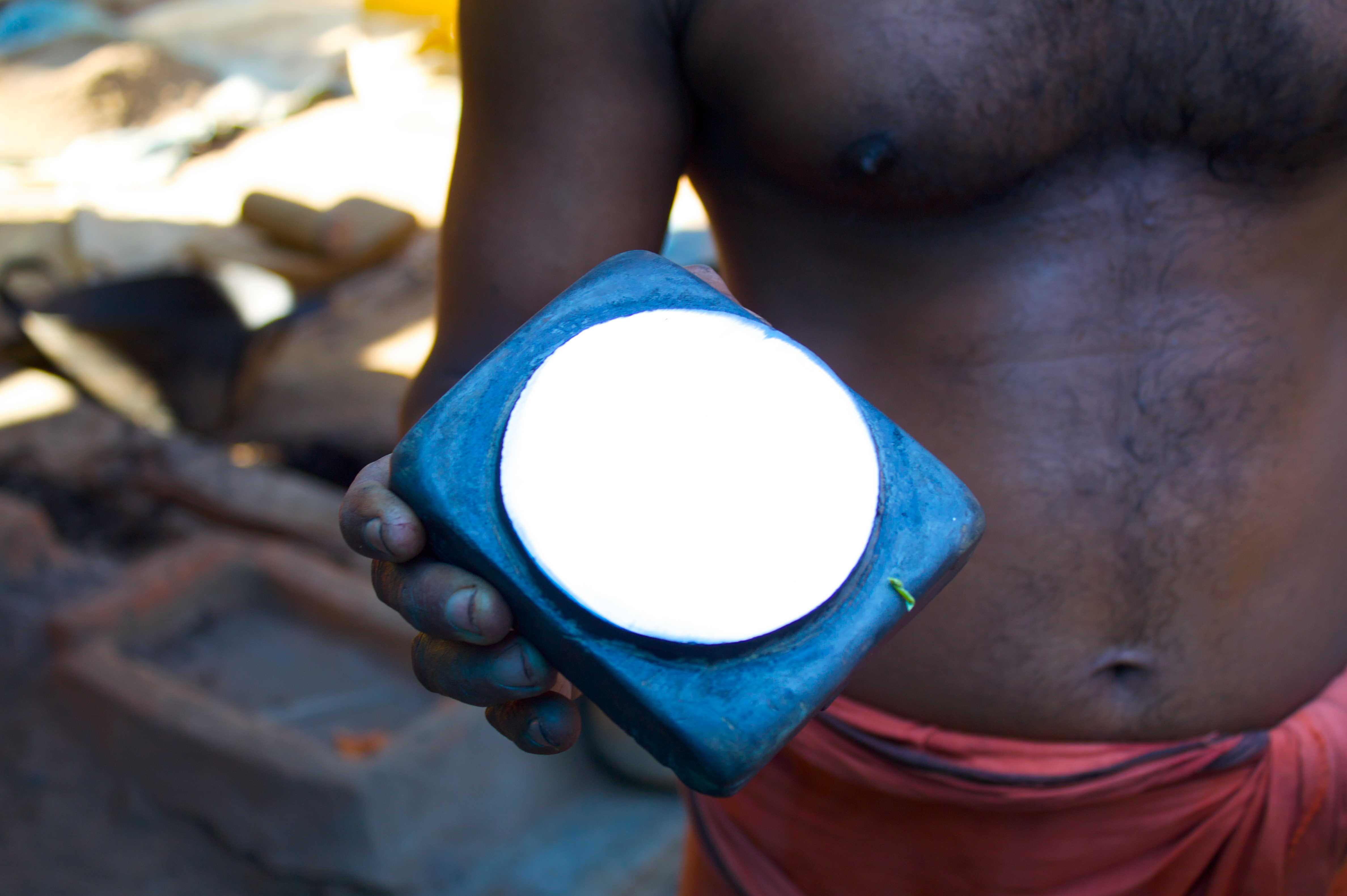 A raw piece of finished metal mirror, Final glazing is still balance..Shot from the Metal mirror workshop in Aranmula